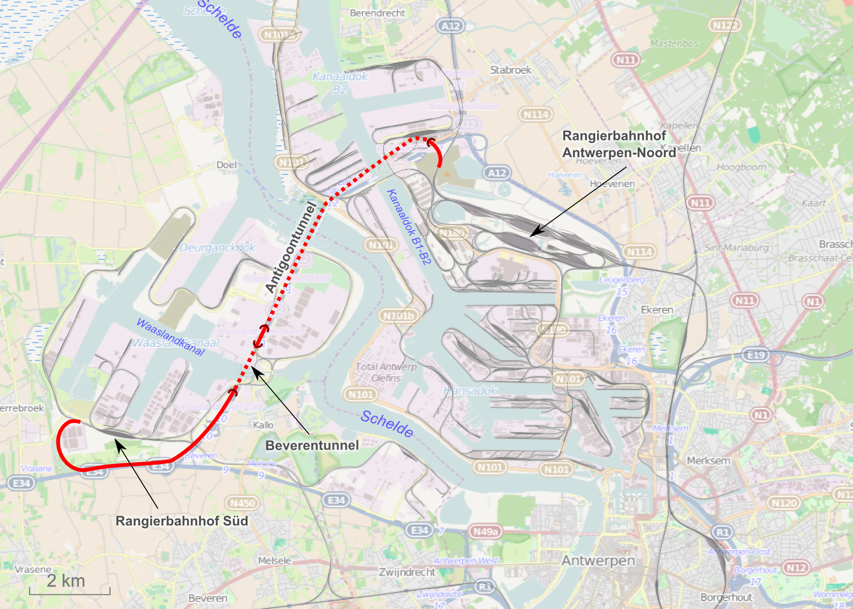 General map of Liefkenshoek rail link, Antwerpen